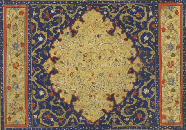 Qur'an, Iran, early 16th century, opening of the Qur'an, gold and Lapis Lazuli decorations